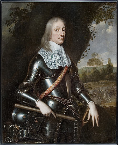 Wilhelm Friedrich (Nassau-Dietz), Governor of Frisia